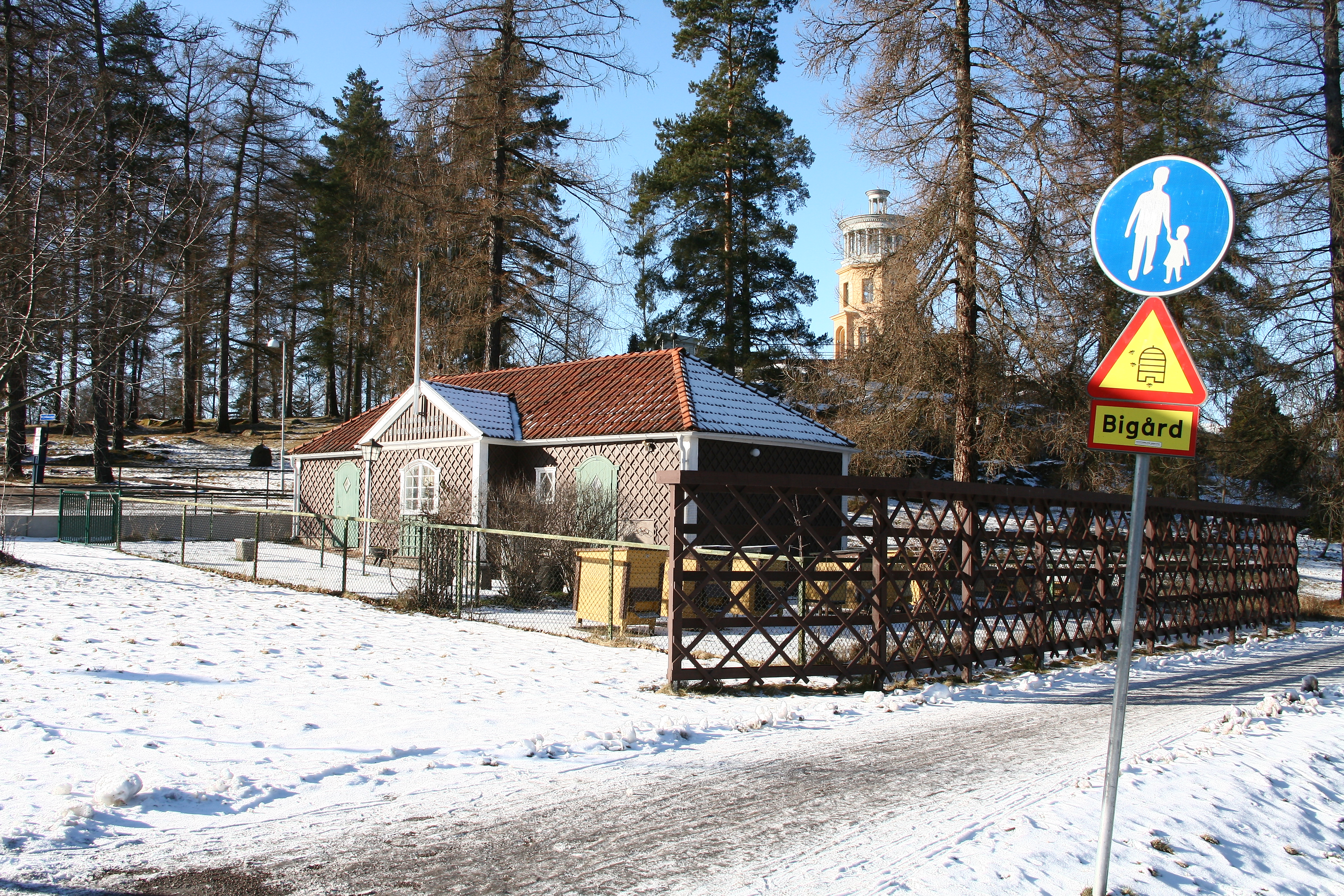 Trädgårdsföreningen, park in central Linköping, southern entrance, in the winter. Club house of the Linköping beekeeper society, with warning sign. In the background: Belvederen tower.